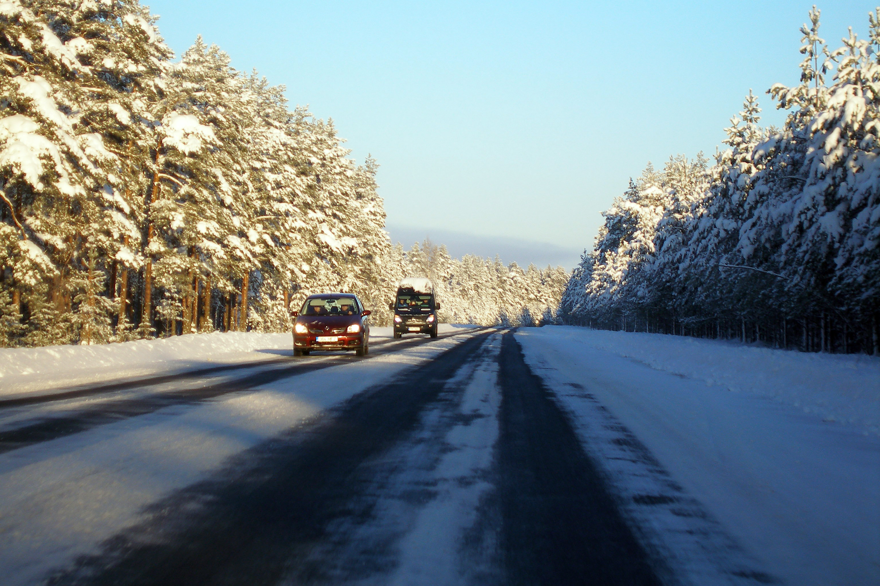 Snowy highway in Lahemaa, Estonia.